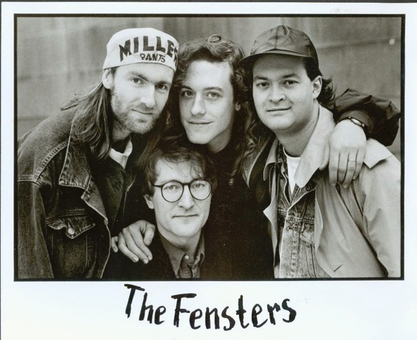 The Fensters (Andy Middleton, Paul Imm, François Théberge, Alan Jones